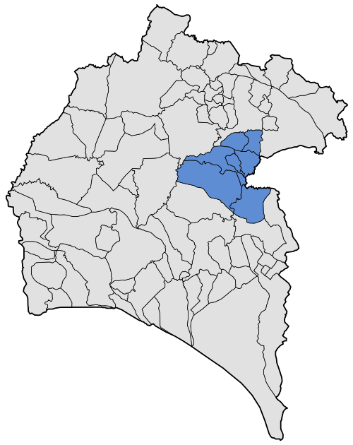 Political Map of Cuenca Minera, region of province of Huelva, Spain